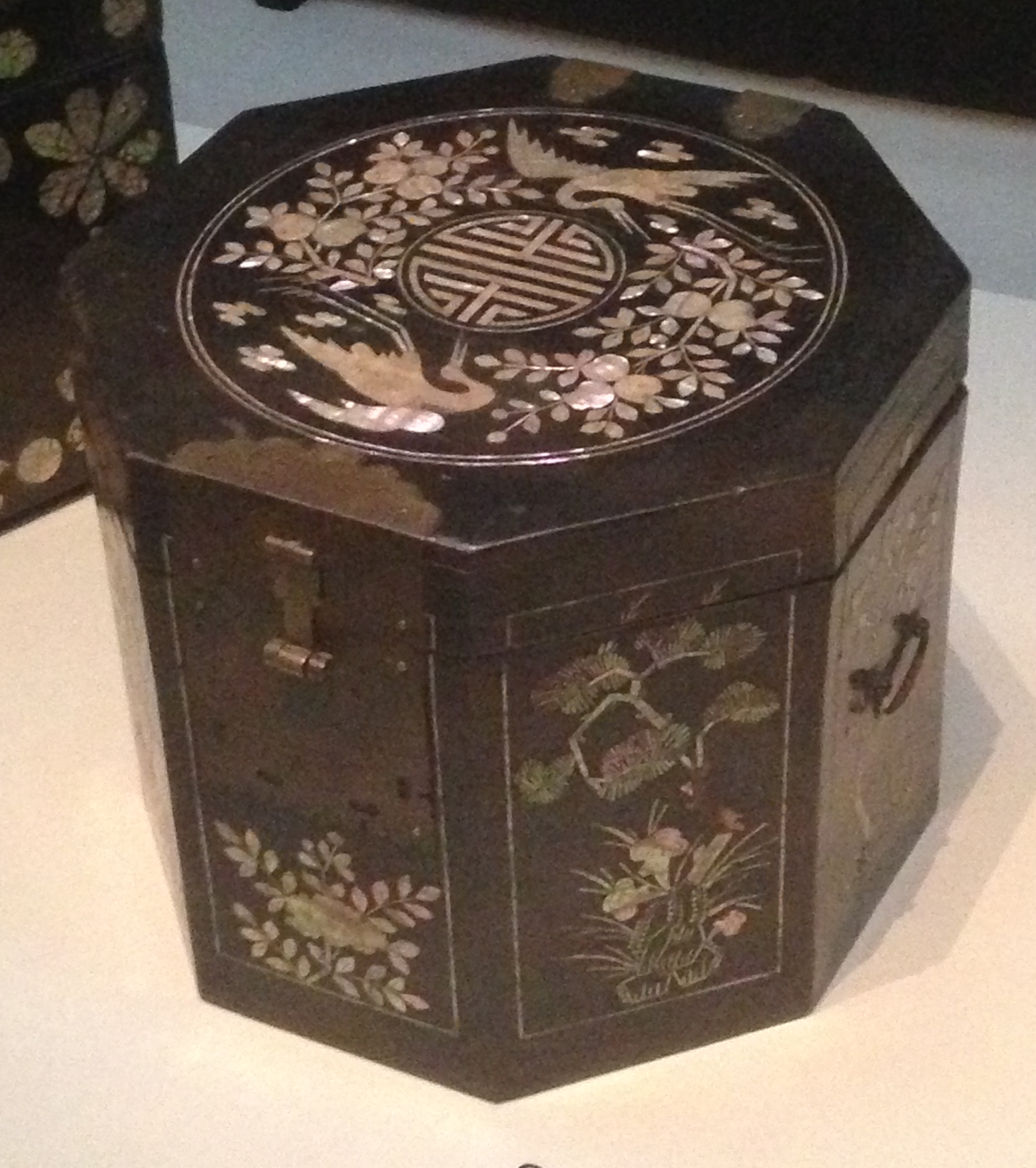 Mother of pearl Octagonal Case, 19th century works